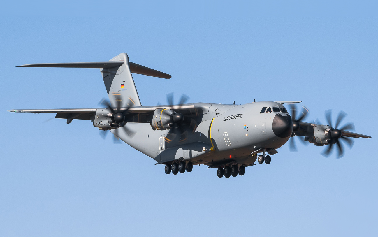 54+08 Luftwaffe A400M Maiden Flight